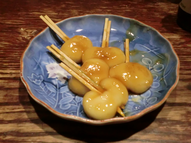 Janbo Mochi (Traditional confectionary of Kagoshima prefecture).